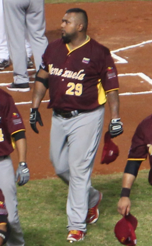 Luis Jiménez